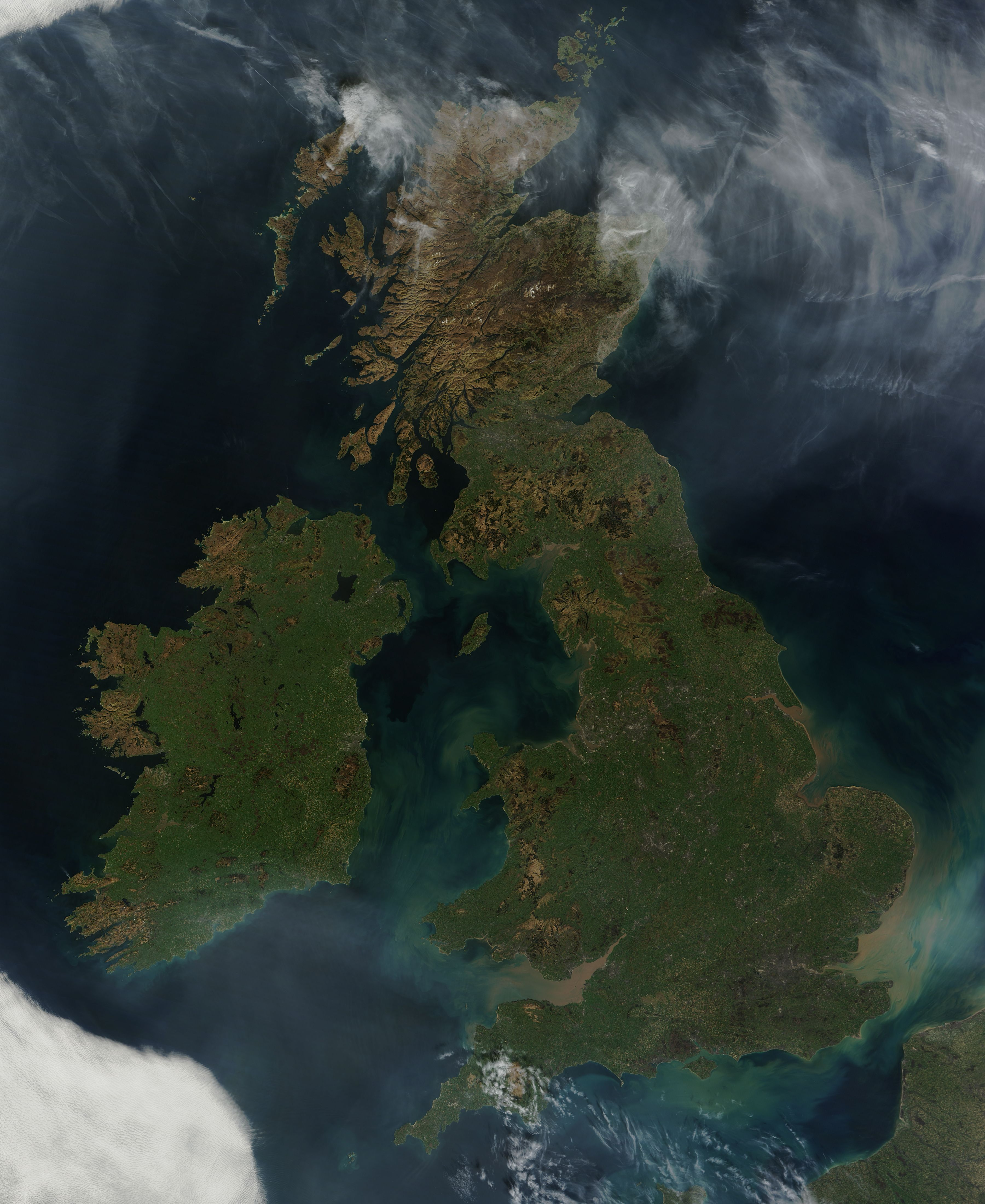 This nearly cloud-free view of Great Britain and Ireland was acquired by the Moderate Resolution Imaging Spectroradiometer (MODIS) aboard NASA’s Terra satellite on March 26, 2012. Just a few days into spring, most of the land appears green, although not quite as brilliant as the summertime hues that give Ireland the nickname “the Emerald Island”.